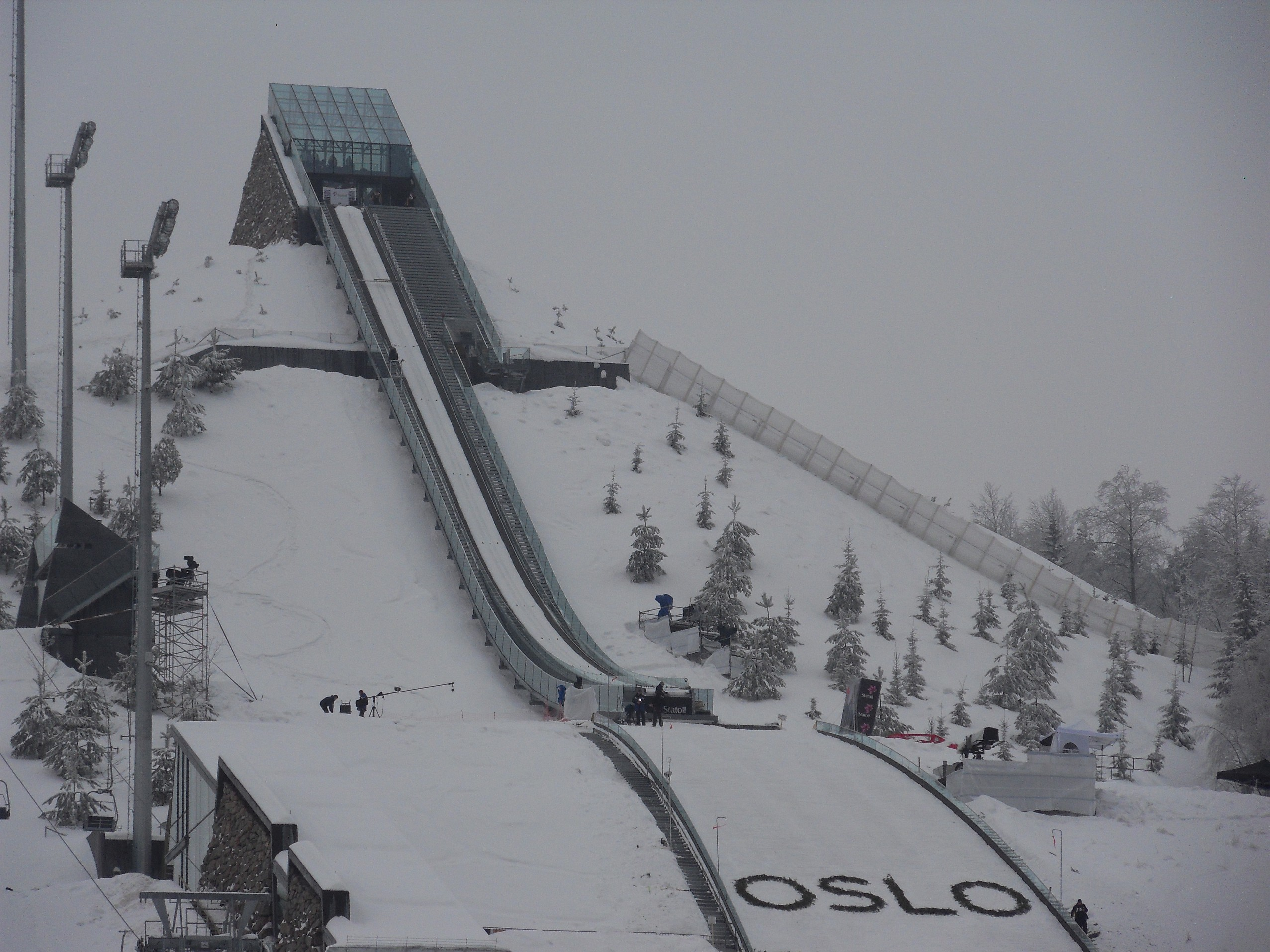 Midtstubakken during the FIS Nordic World Ski Championships 2011 in Oslo